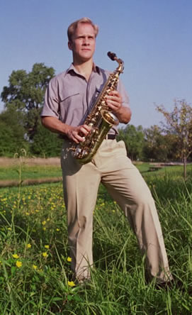 Photo of classical saxophonist Anders Lundegård, to be inserted in Anders Lundegård